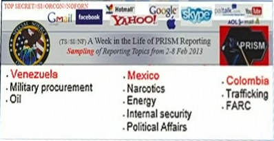 A week in the life of Prism. Published first in O Globo, Since rebroadcast on Brazilian TV